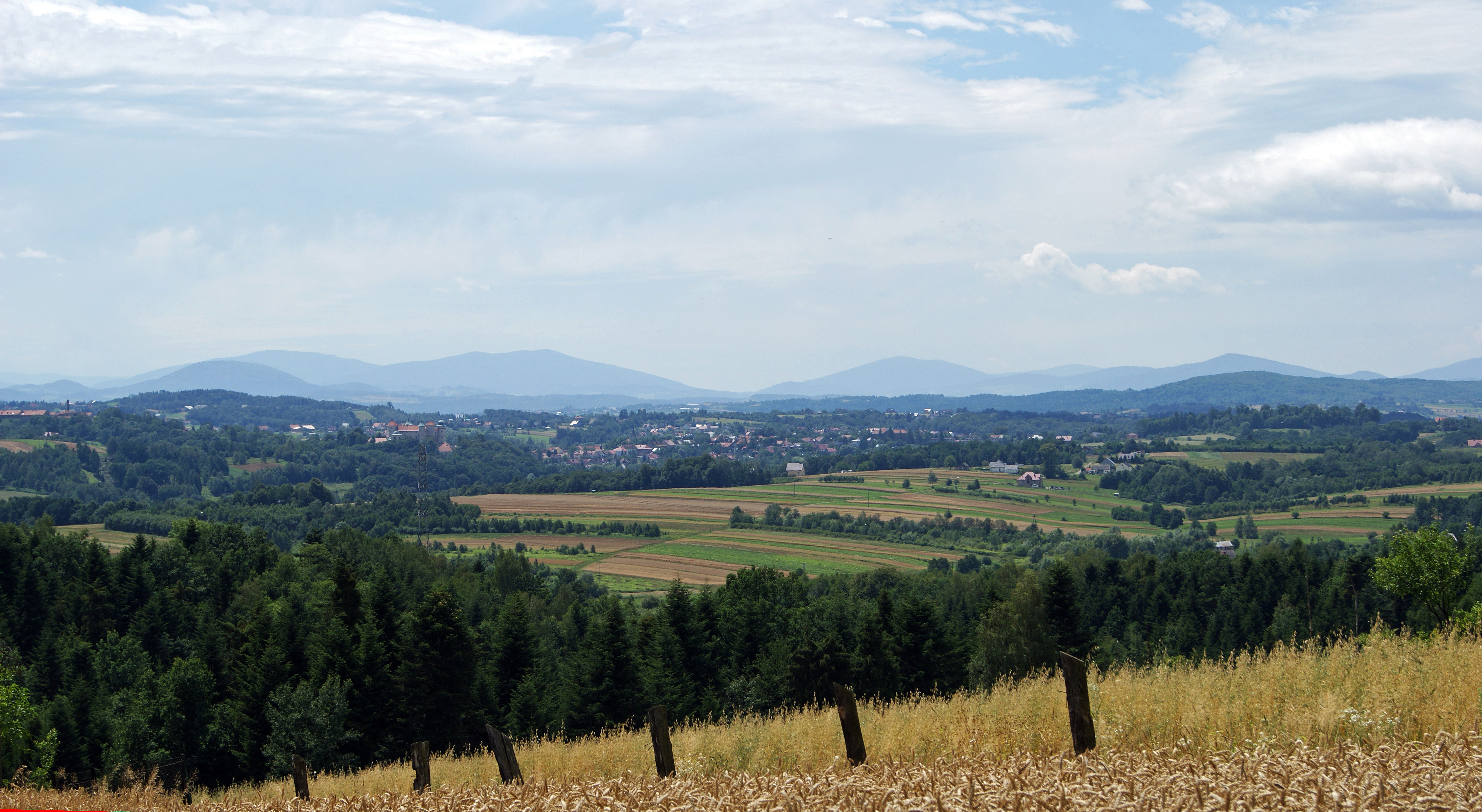 City of Nowy Wiśnicz (view from NE), Bochnia County, Lesser Poland Voivodeship, Poland